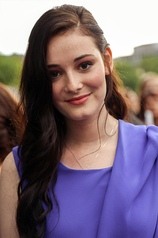 Maria Ehrich auf der Premiere von "Saphirblau" am 11. August 2014 in Köln